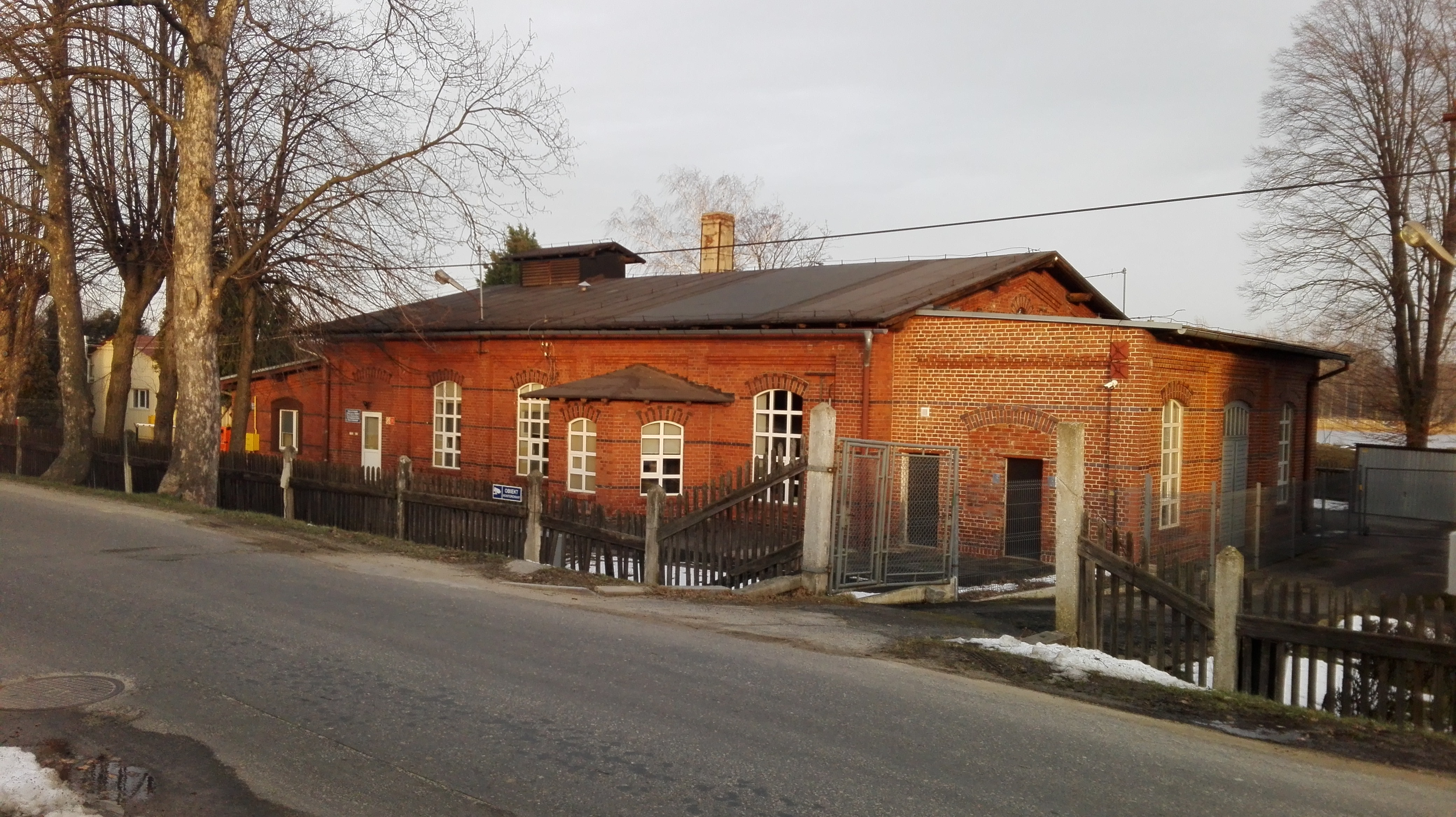 Księcia Józefa Poniatowskiego Street in Prudnik